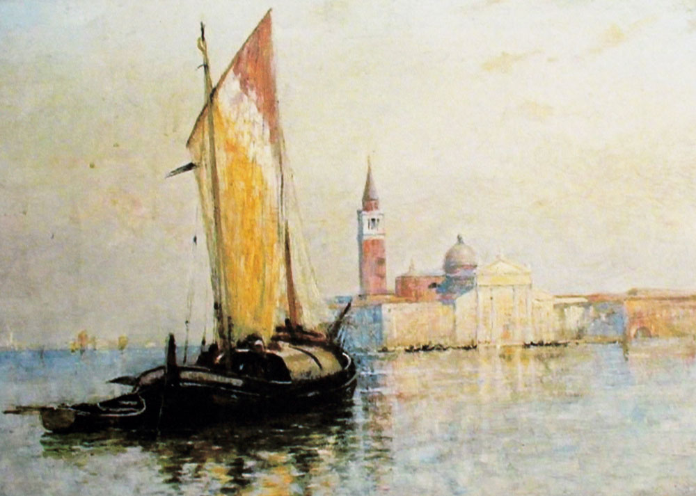 reproduction of oil painting showing Venice with view of San Giorgio Maggiore